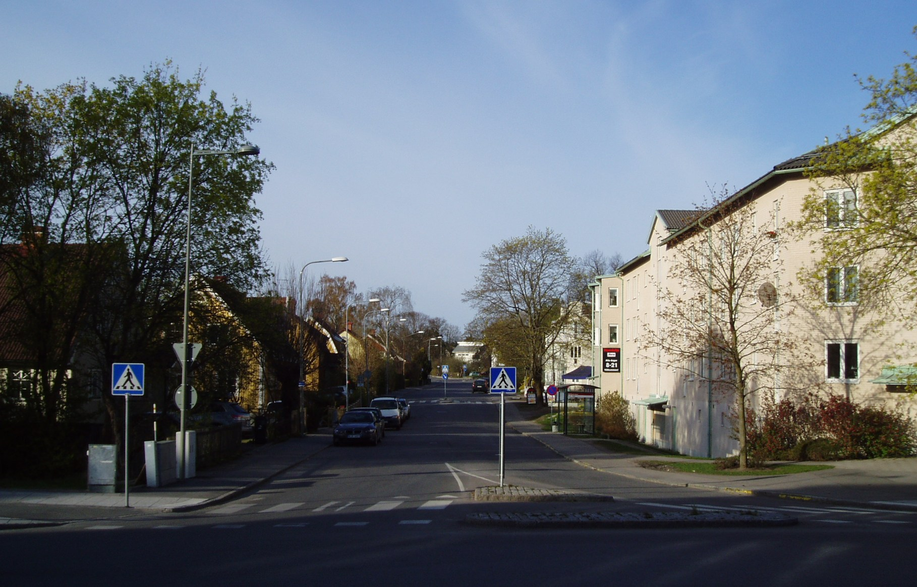 Sjättenovembervägen, street in Älvsjö, Stockholm